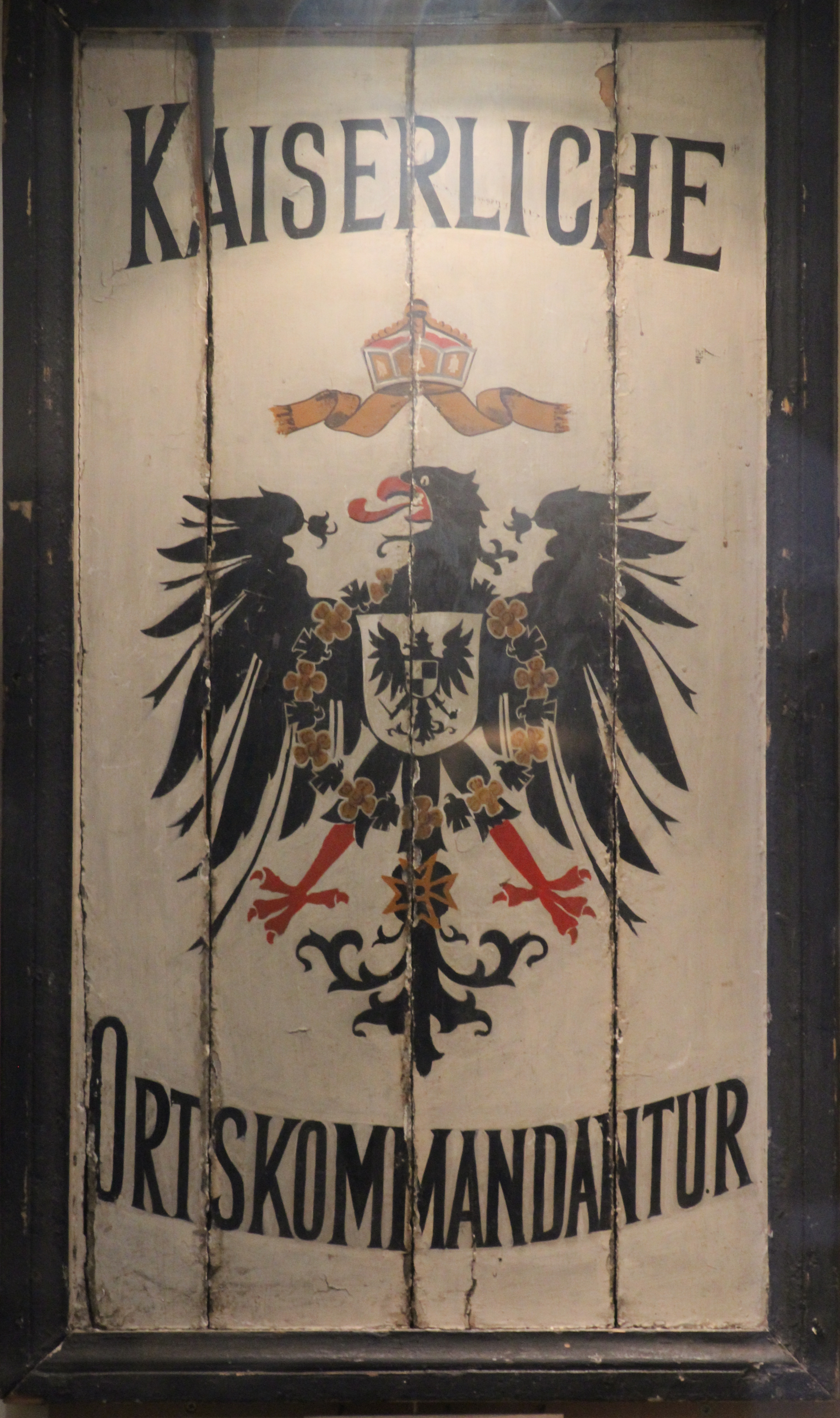 German District Commander sign taken as a trophy by the B Squadron of the Imperial Light Horse during the German South-West African campaign of the First World War. Now on exhibition at the South African National Museum of Military History, Johannesburg.